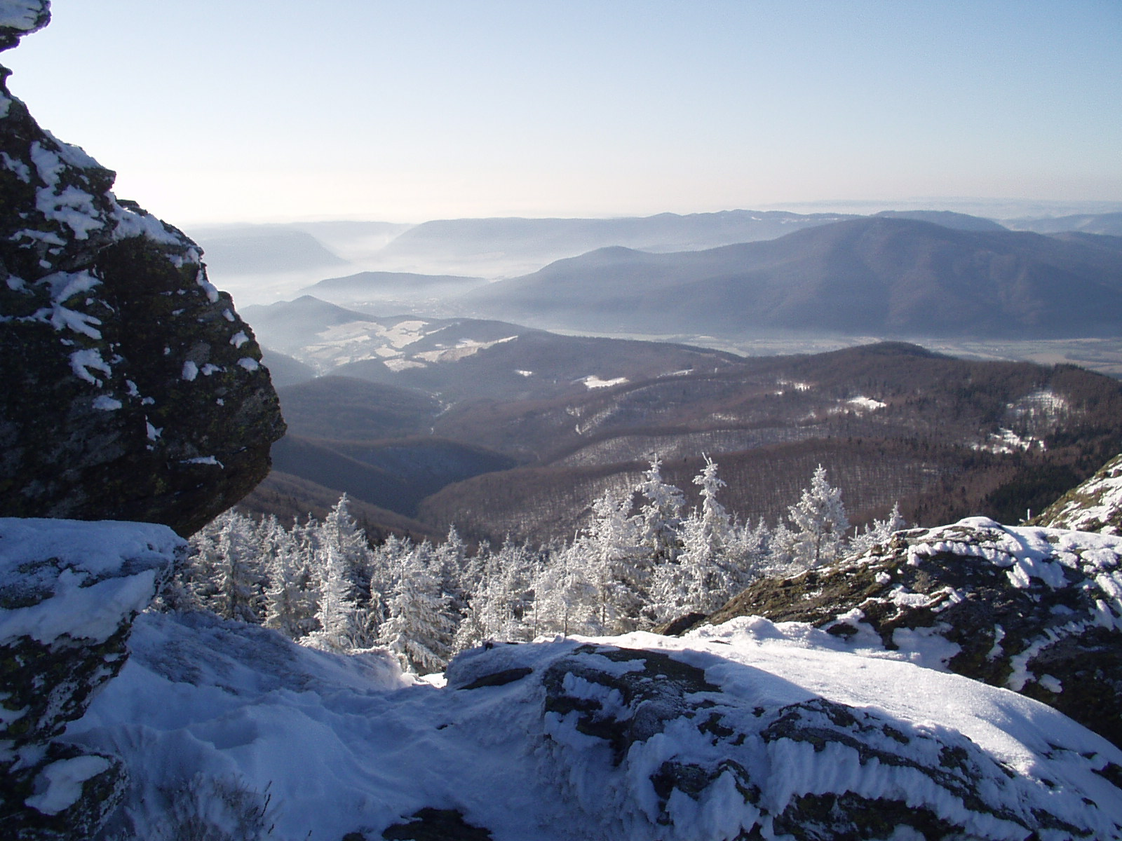 Slovak karst from mountain Volovec (near mountain Rožňava)